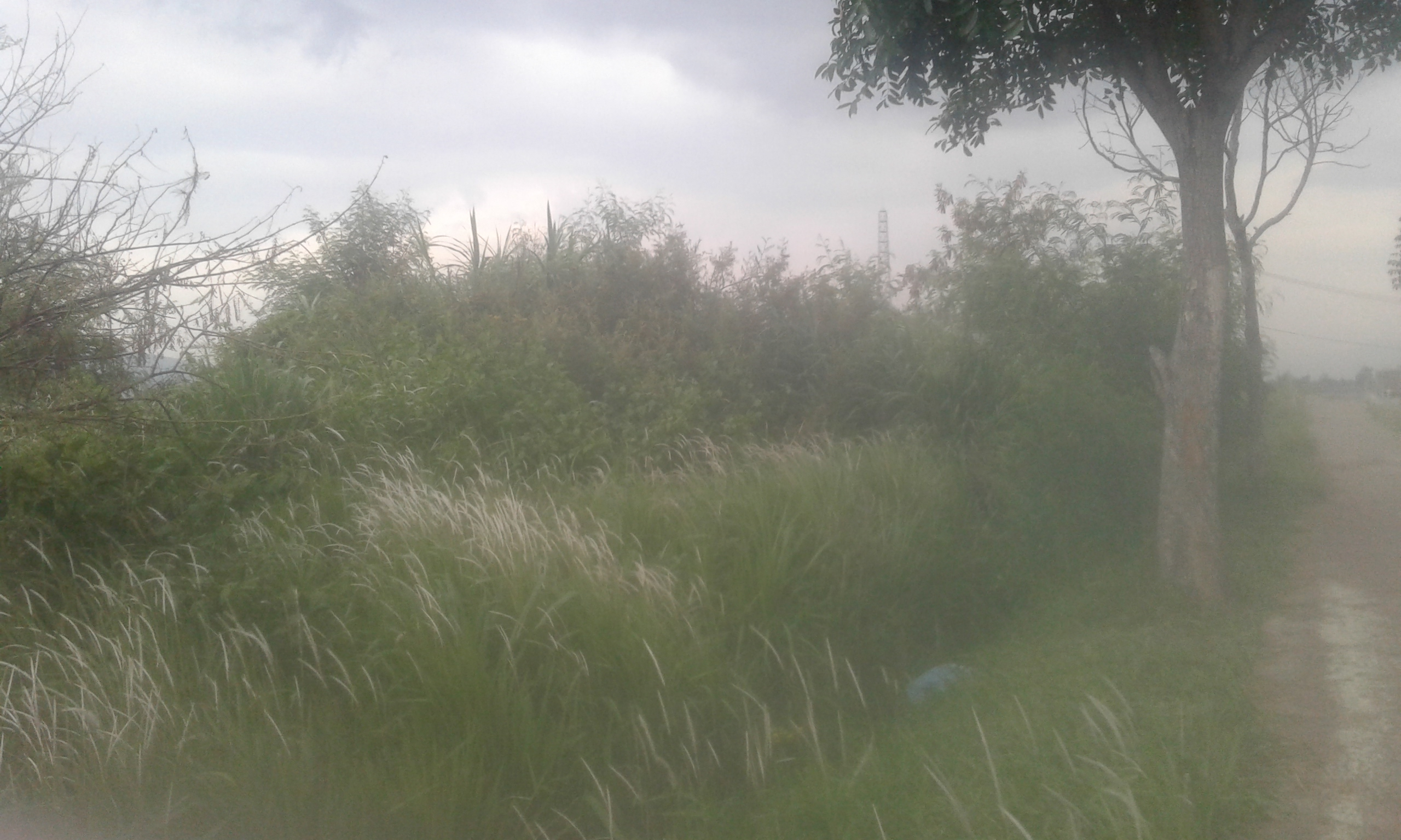 This photo has been taken in the country: Indonesia